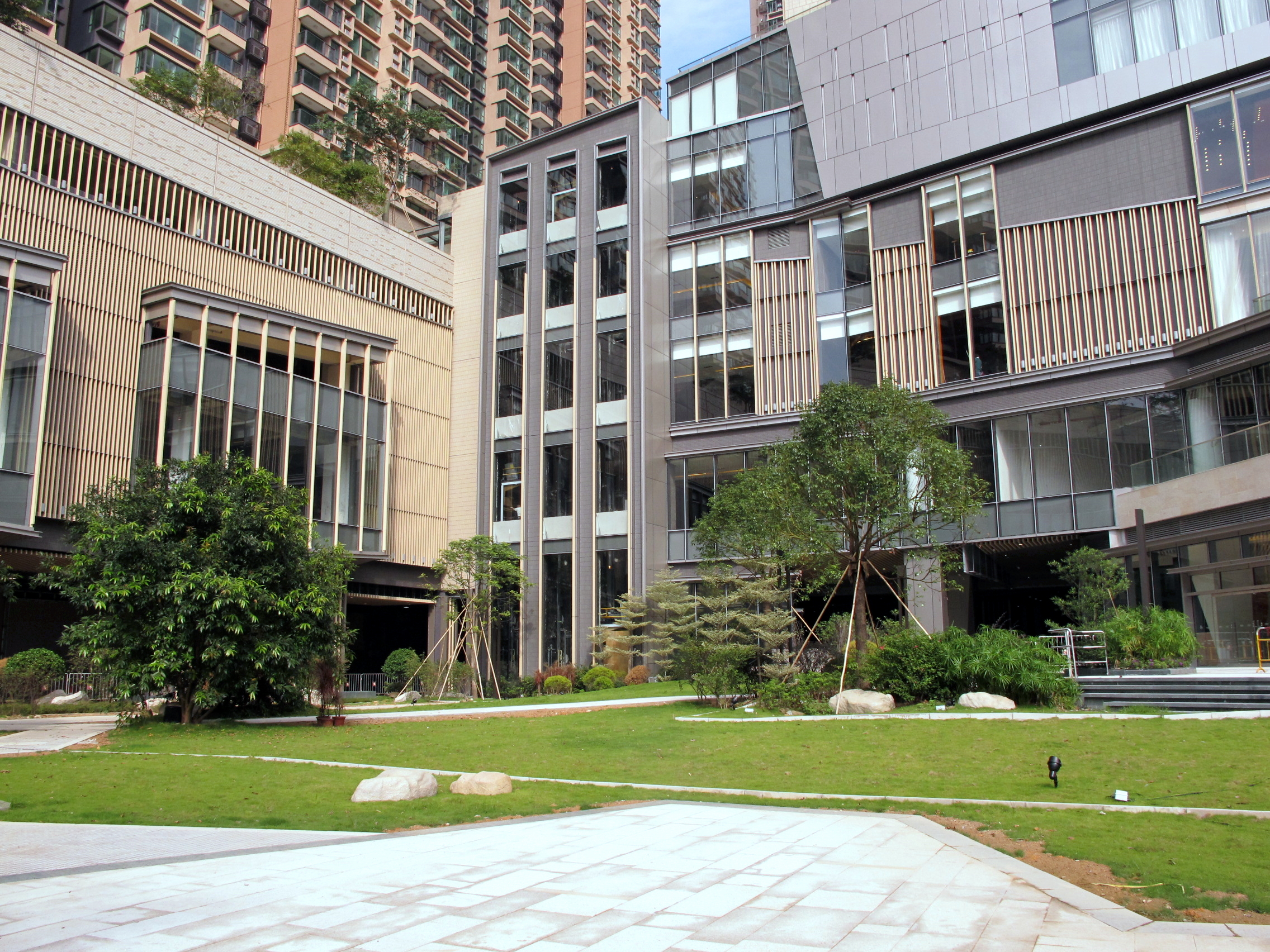 YOHO Midtown Open Space